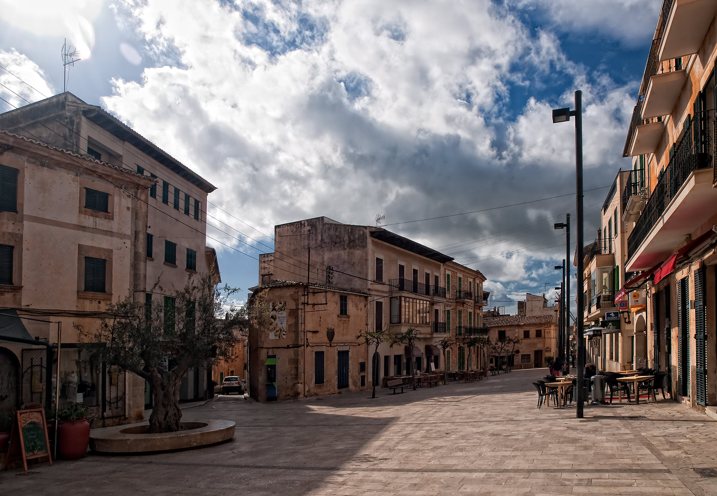 Santanyí Square (Mallorca, Spain)